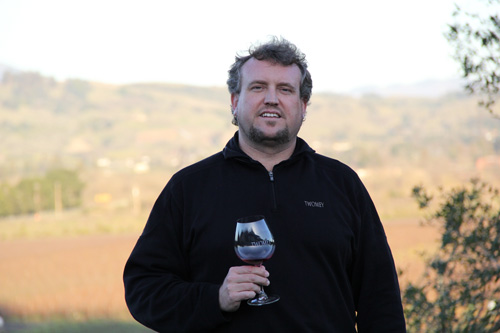 Ben Cane of Twomey Cellars.